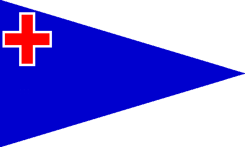 Yacht club flag